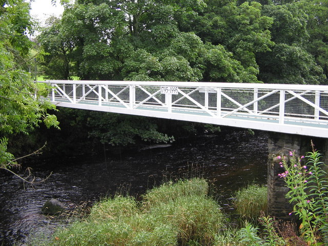 Bridge over the Water of Fleet